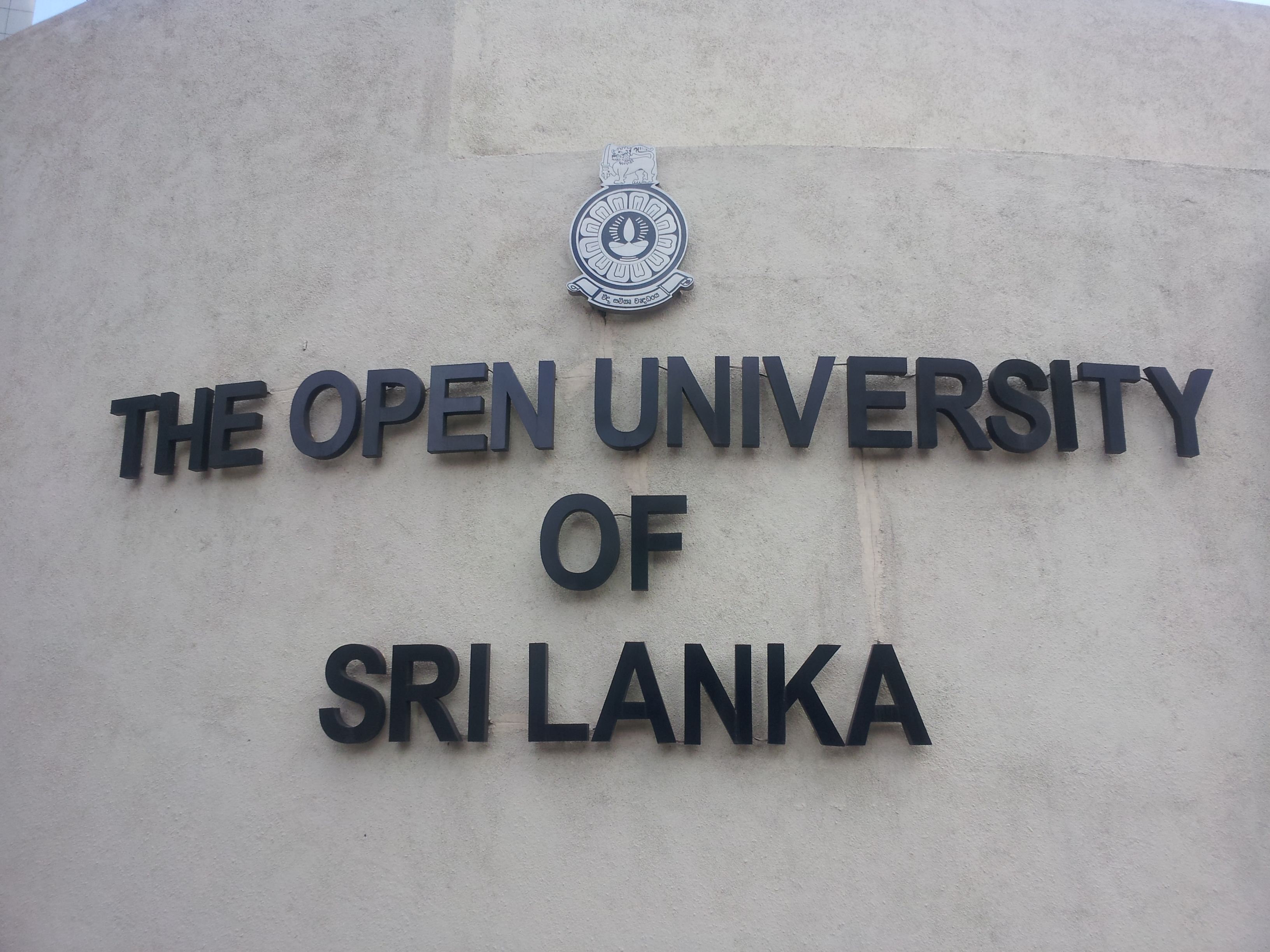 At main regional center